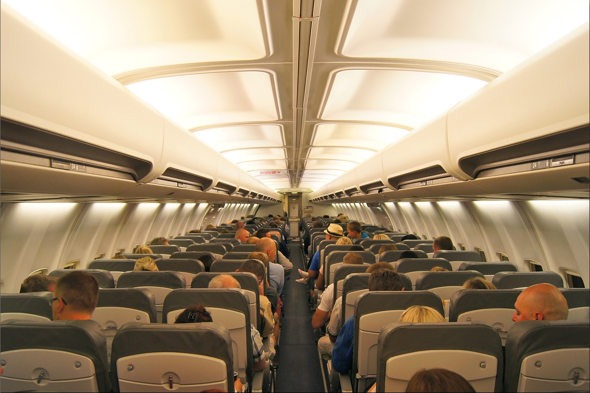 Interior of the Boeing 737-4C9 SP-ENF operated by Enter Air